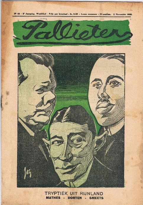 Left to right: Josef Friedrich Matthes, Hans Adam Dorten, Joseph (Pierre Joseph Isidoor) Smeets (25-6-1859 - 26-9-1929). Front page of the Flemish magazine Pallieter (1922-1928). All front pages were designed and illustrated by Jos De Swerts (1890-1939).